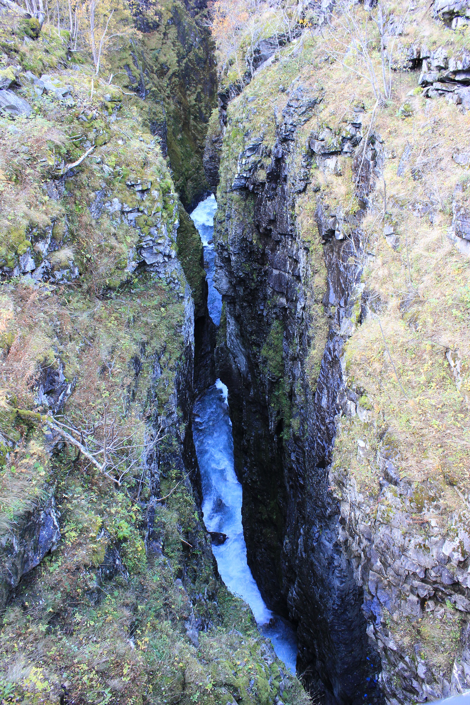 Jøl bridge at Strynefjellet - Deep cliff